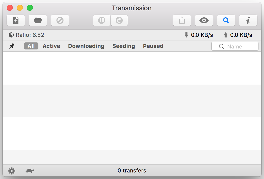 Transmission 2.92+ Jenkins version (caf3b7653c)